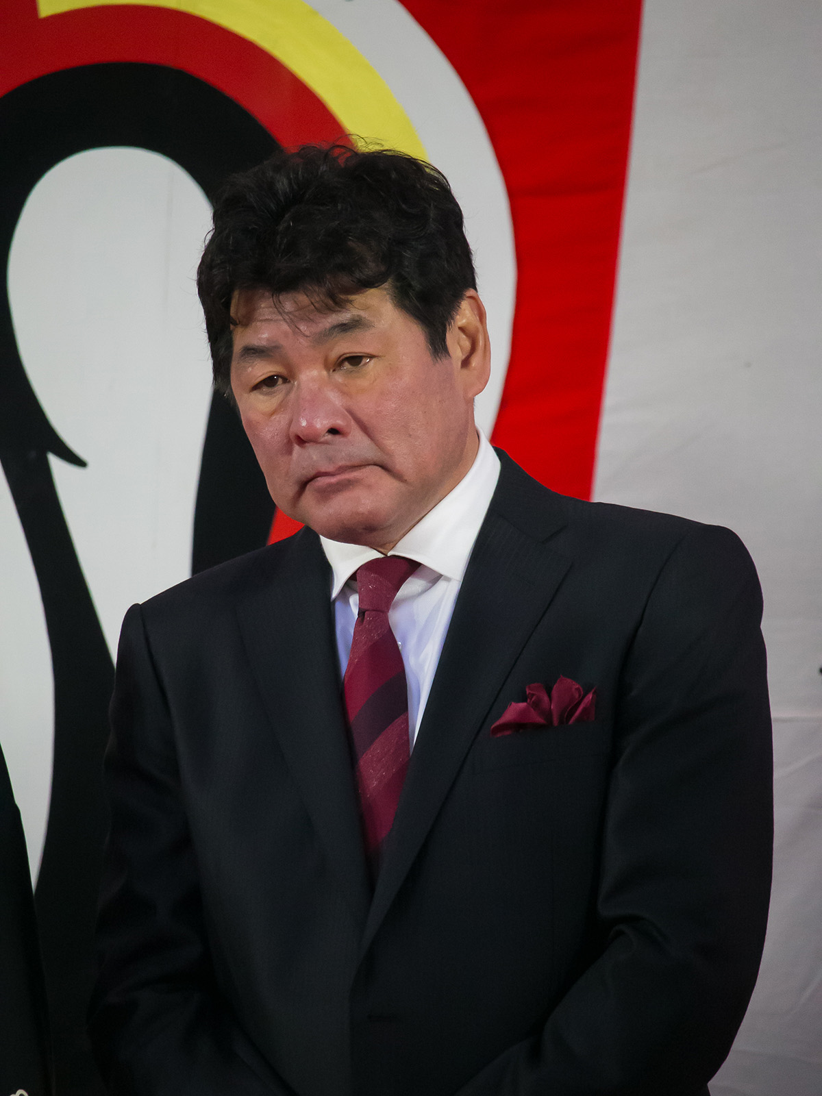 Hidekazu Akai (Japanese Actor, Boxer).